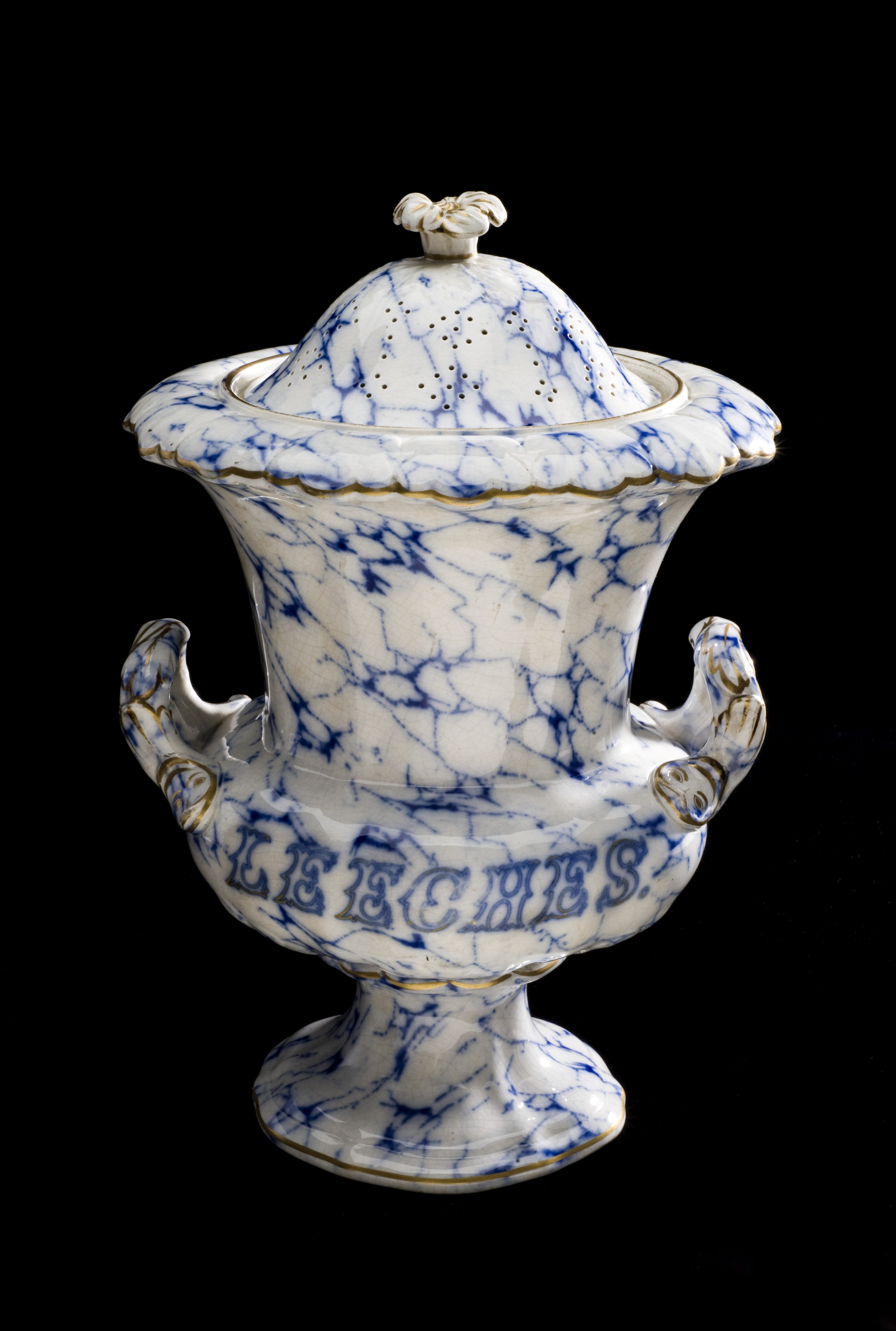 Leeches were used in bloodletting – a practice once carried out to treat a wide range of diseases and medical conditions. This jar was used to hold leeches which would have been on sale to medical practitioners. They are a type of worm with suckers at both ends of the body although only the frontal sucker, which has teeth, is used to feed. Once attached to a living body, they feed on blood. They can live for quite a while between meals, so the lid has holes in the top to allow air into the jar. Leeches were such a popular treatment that by 1830 their demand outstripped the supply. Leeches are again being used today following plastic and reconstructive surgery as they help restore blood flow and circulation. maker: Unknown maker Place made: England, United Kingdom Wellcome Images Keywords: Bloodletting; leech jar